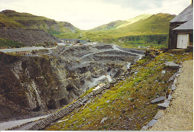 Gloddfa Ganol Slate Mine. Lying west of the road from a similar tourist attraction, the Llechwedd Slate Caverns.